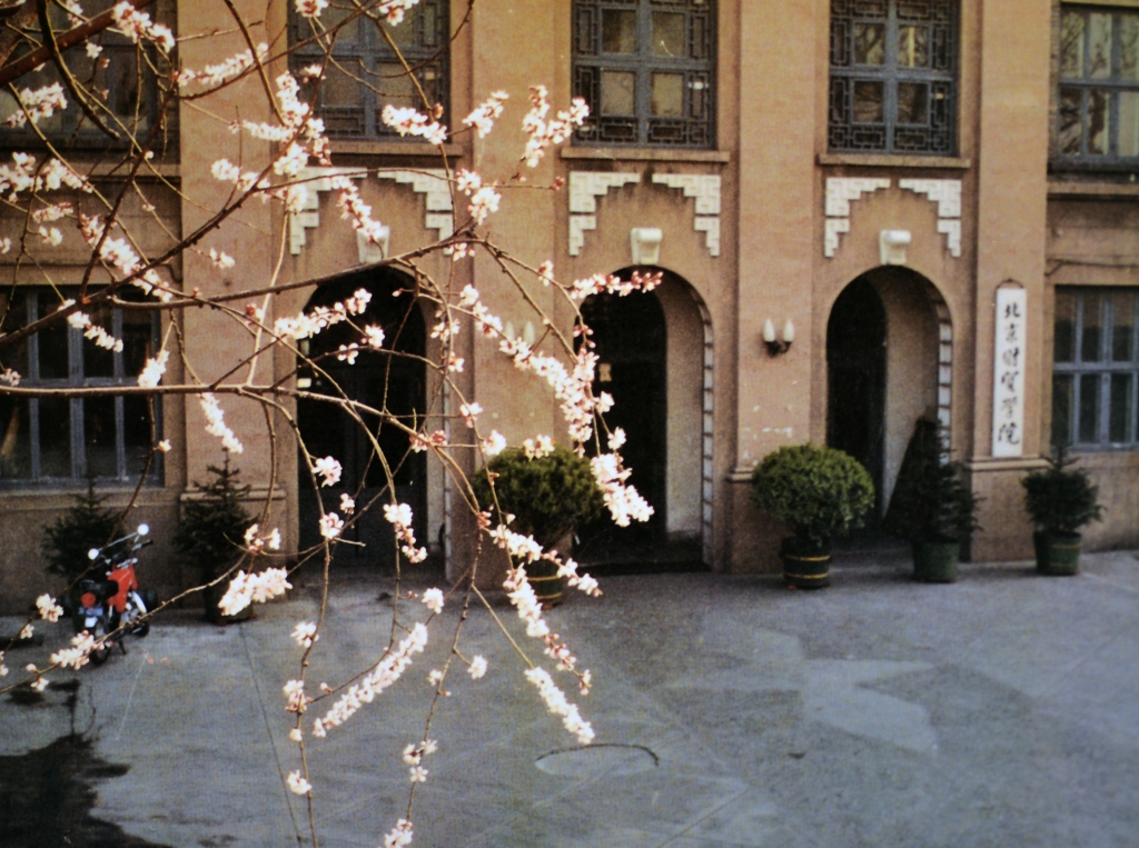 Beijing Finance and Trade Institute